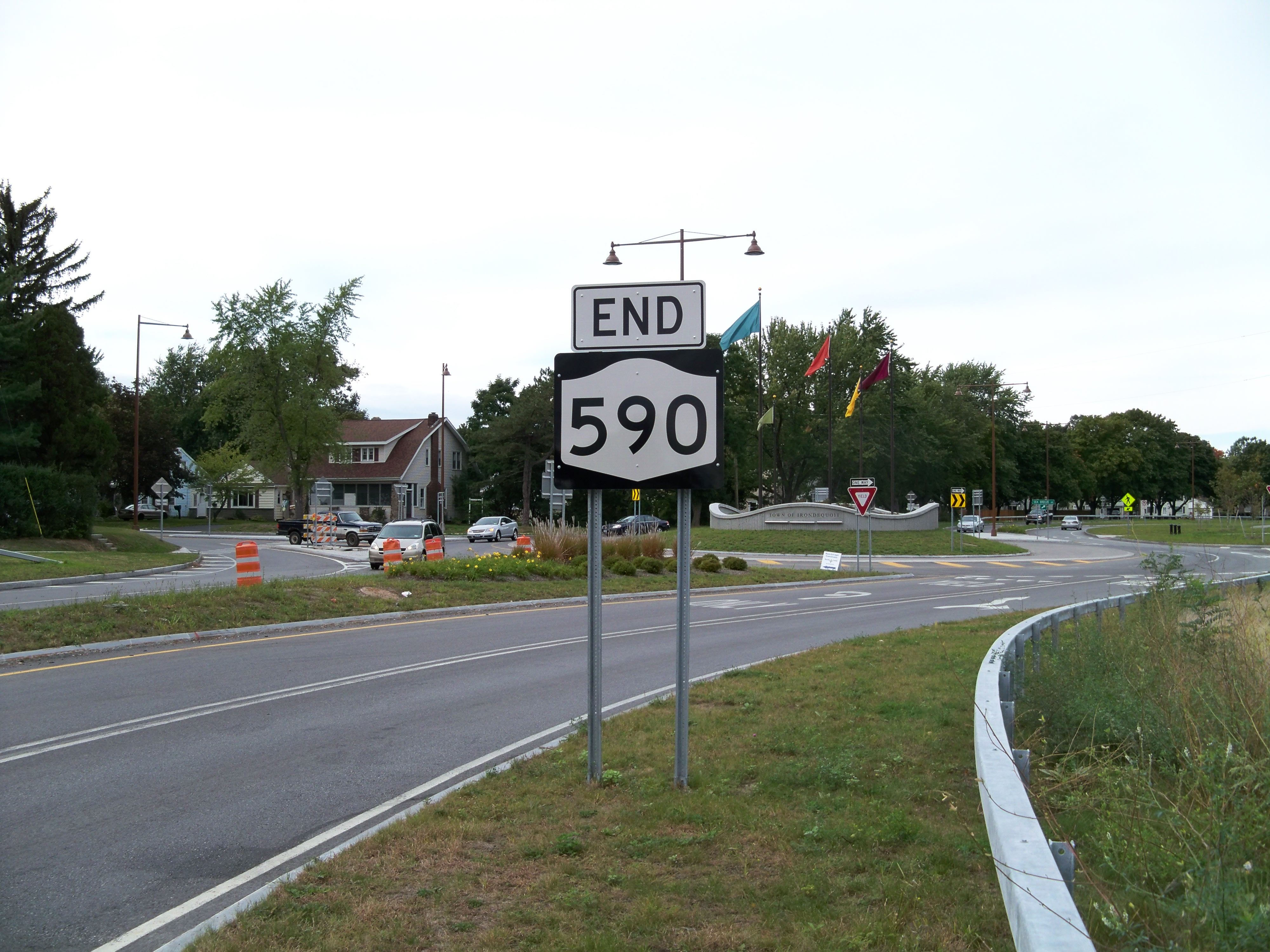 An updated photo of the new northern terminus of New York State Route 590 at Titus Avenue in Irondequoit.